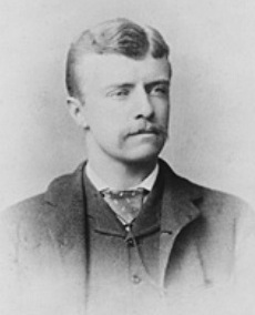 Theodore Roosevelt as a New York State assemblyman